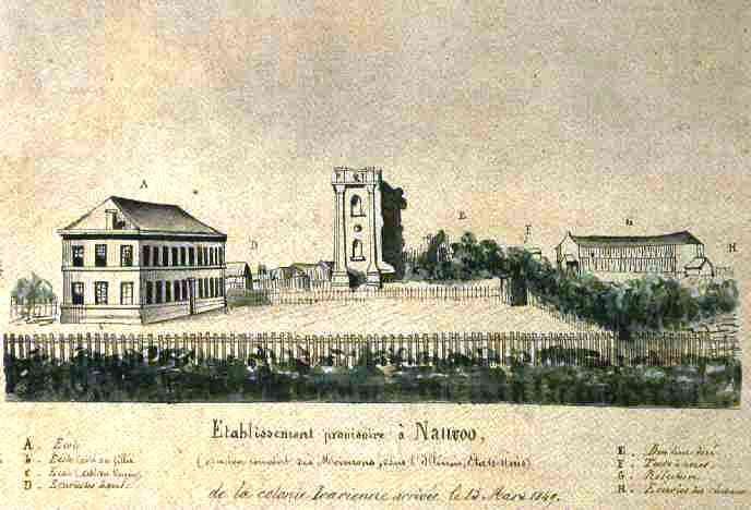 View of "Ikaria" around 1849